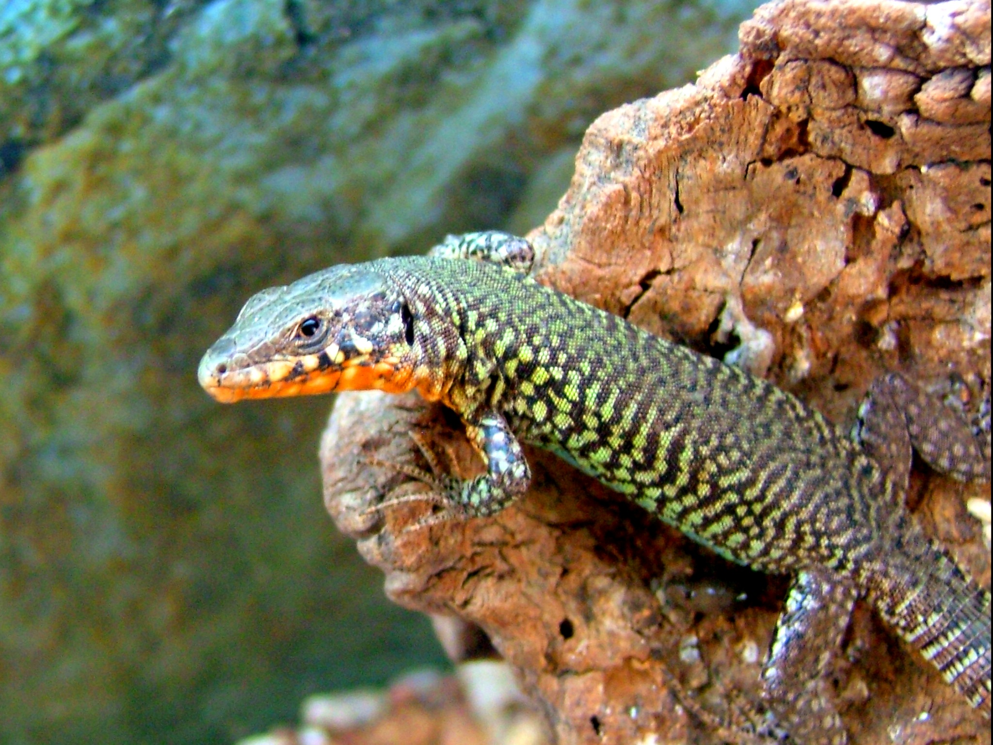 Podarcis filfolensis kieselbachi male photo: Arnold Sciberras